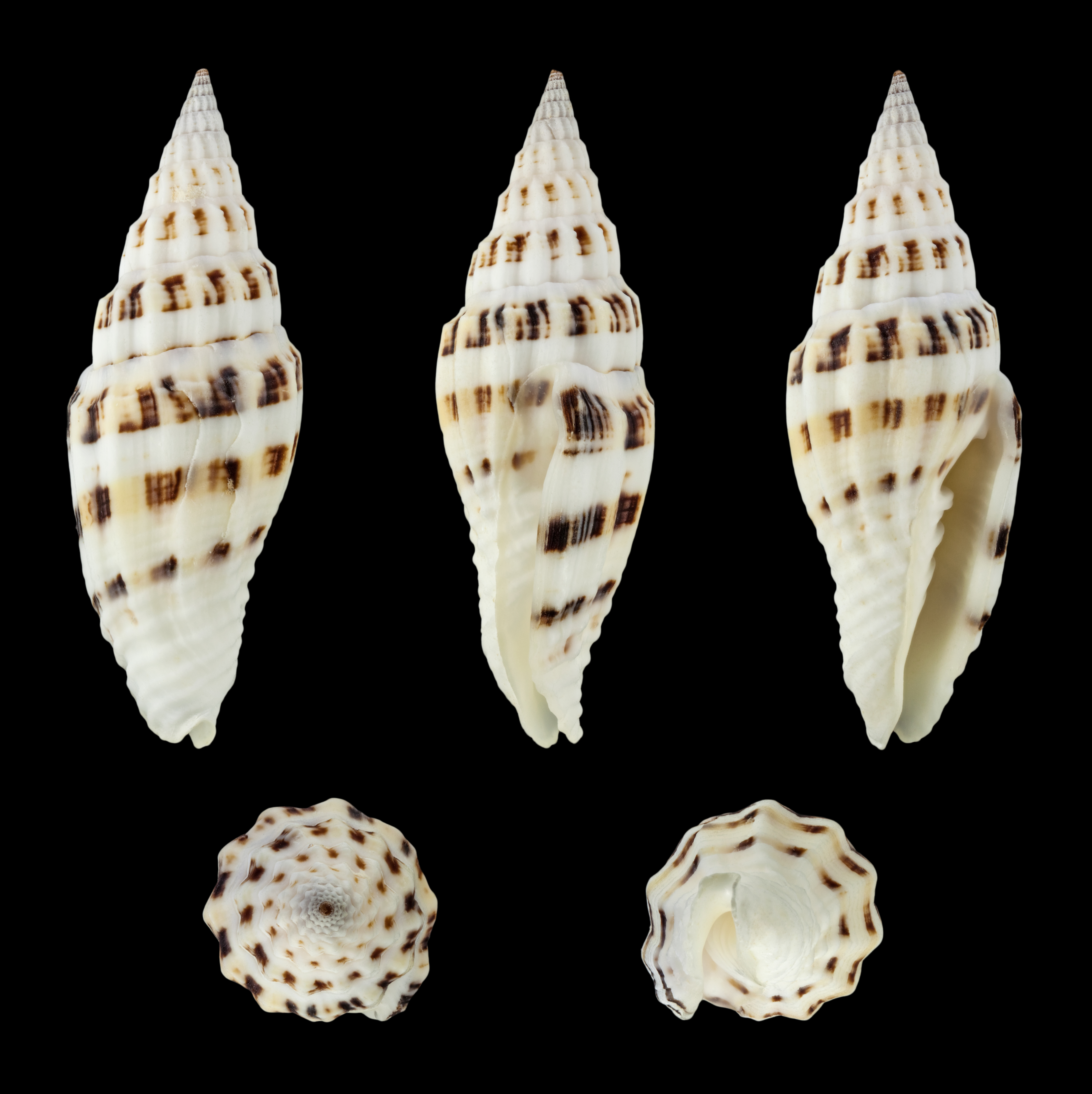 Vexillum albofulvum Hermann, 2007; length 5.4 cm; Originating from Olango Island, Cebu, Philippines; Shell of own collection, therefore not geocoded.